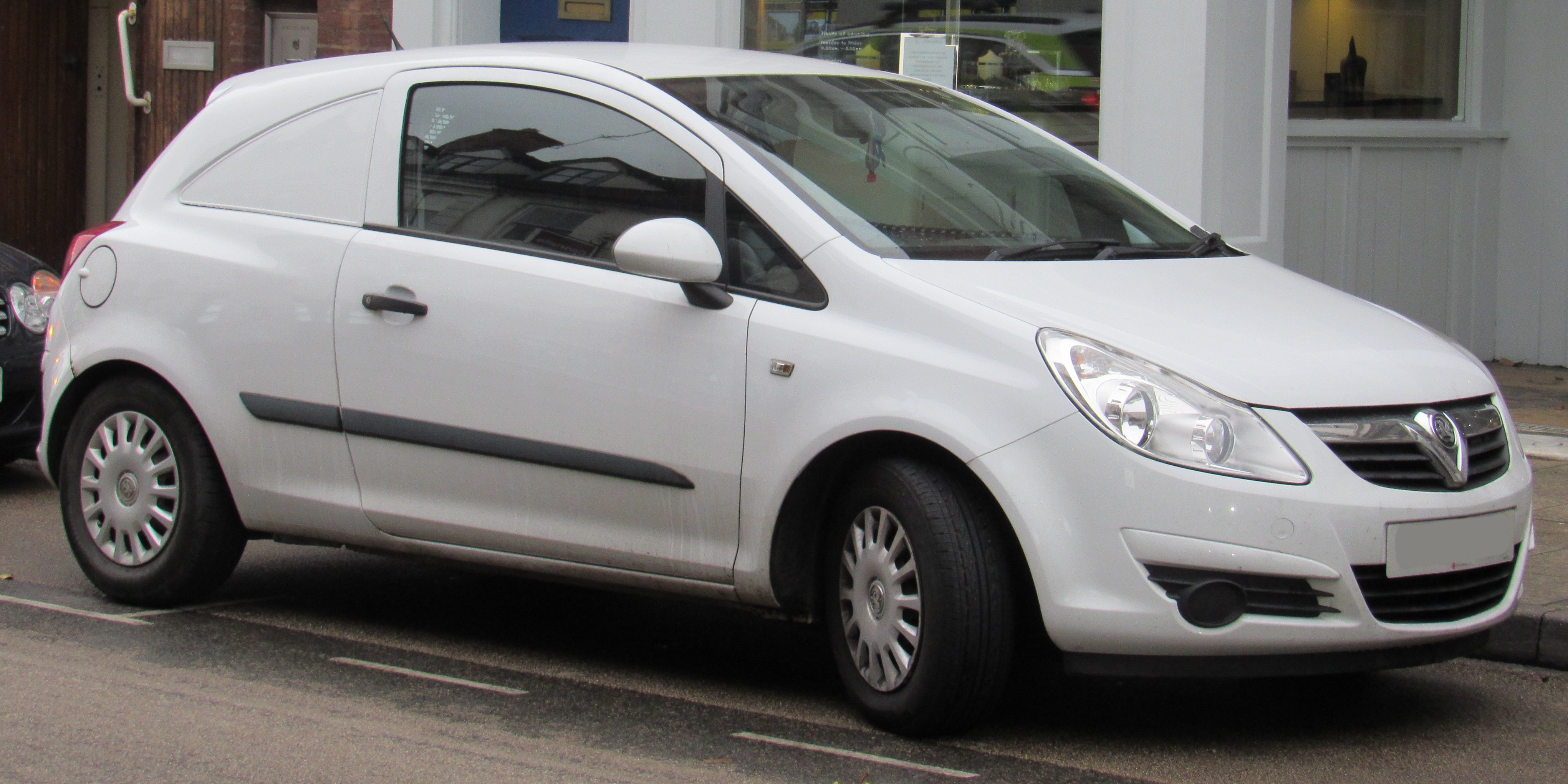 2007 Vauxhall Corsavan CDTi 1.3 Taken in Warwick